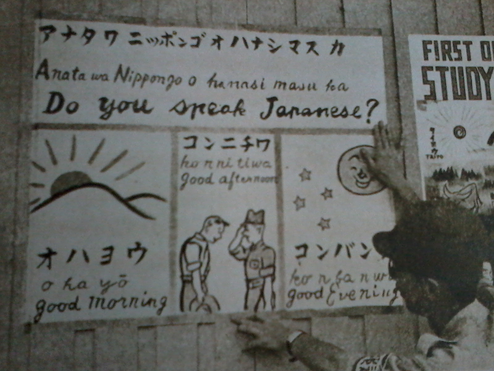 Japanese soldiers post instructive Japanese posters